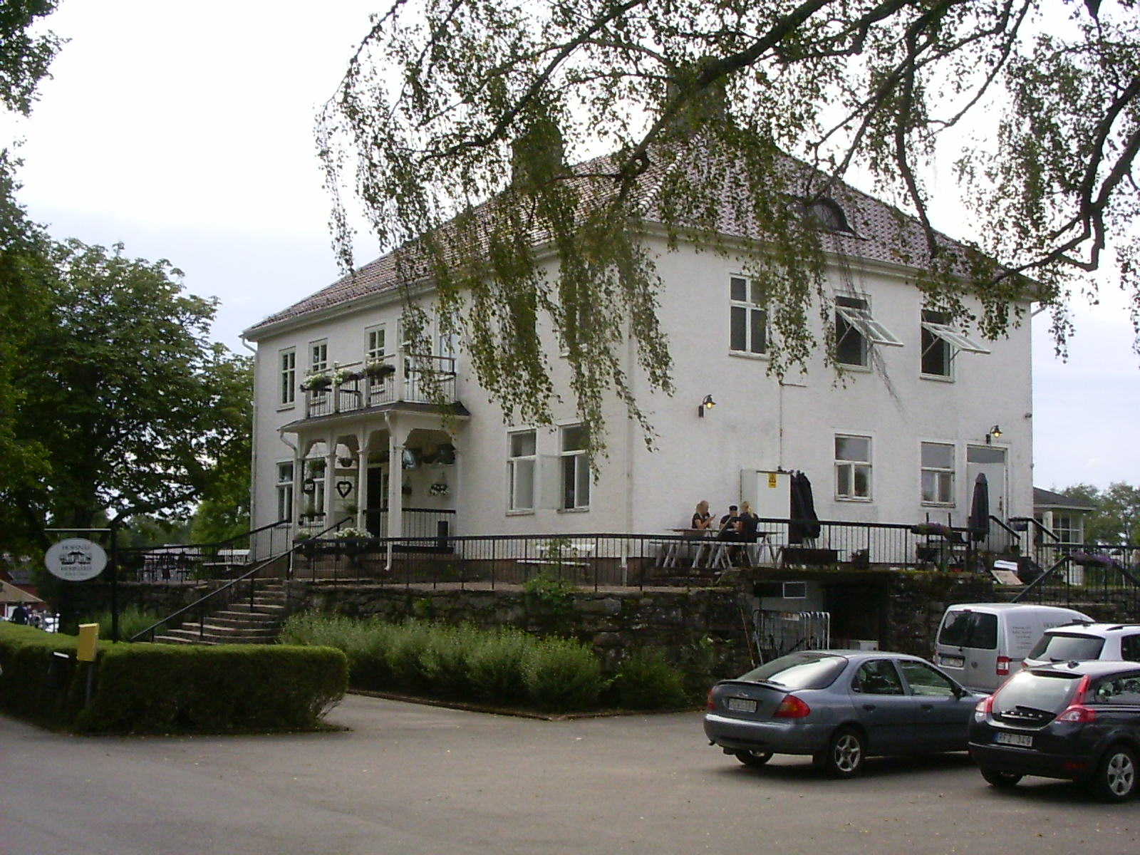 Hofsnäs mansion in Tranemo municipality